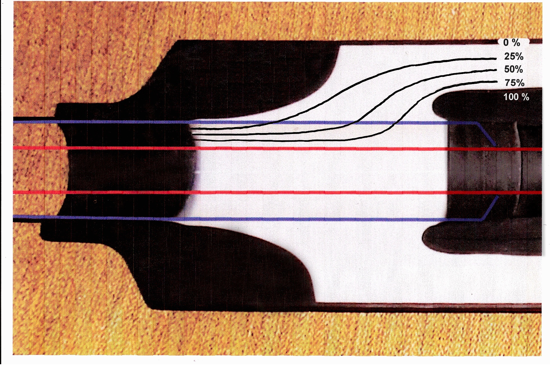 Adaptation of existing Wikimedia image "HV Joint" to show the field distribution in a bi-manchet